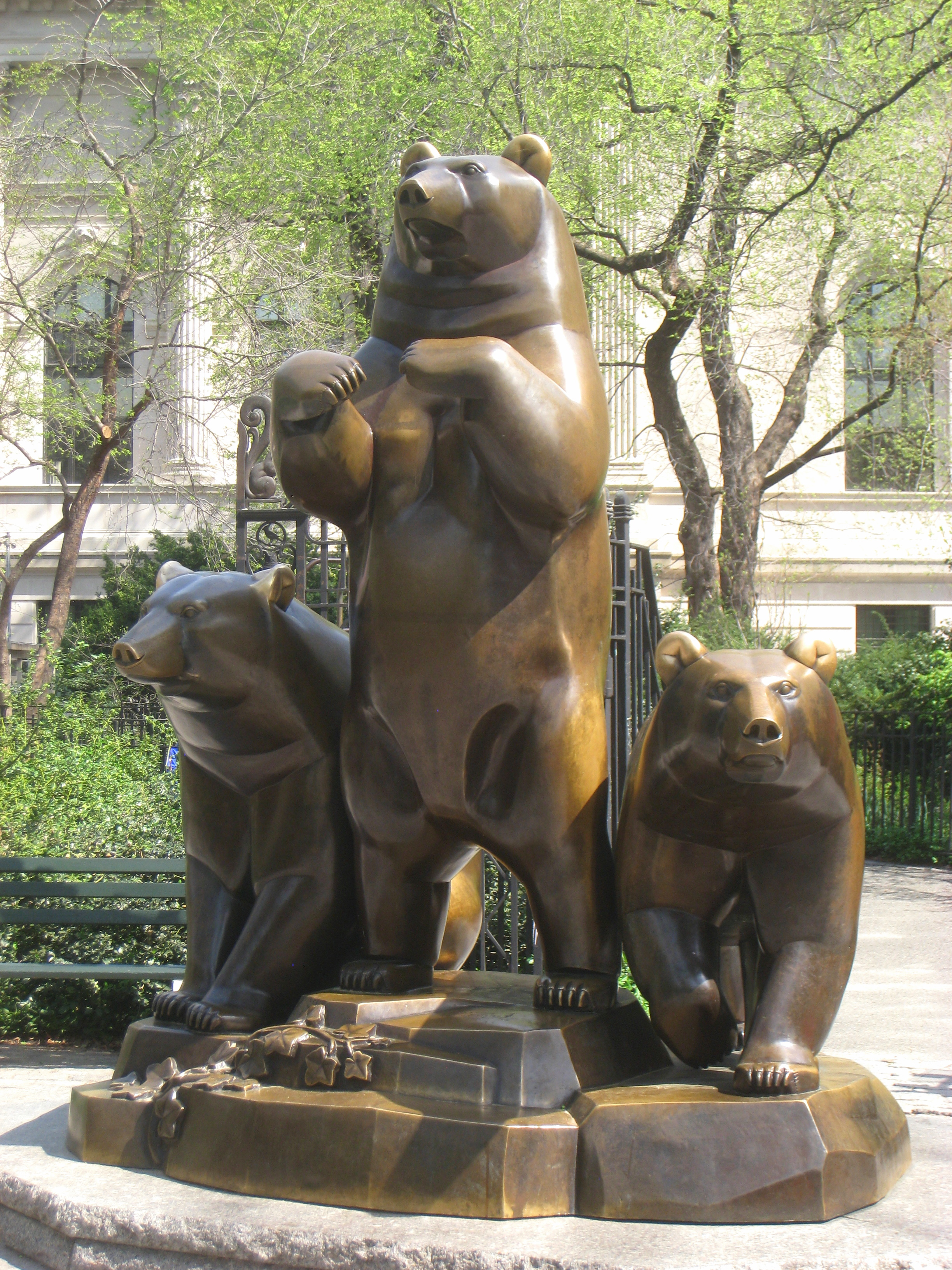 "Group of Bears" by Paul Manship, in Central Park, New York City, New York, USA.